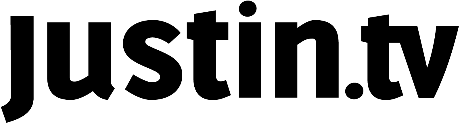 Justin.tv Logo.